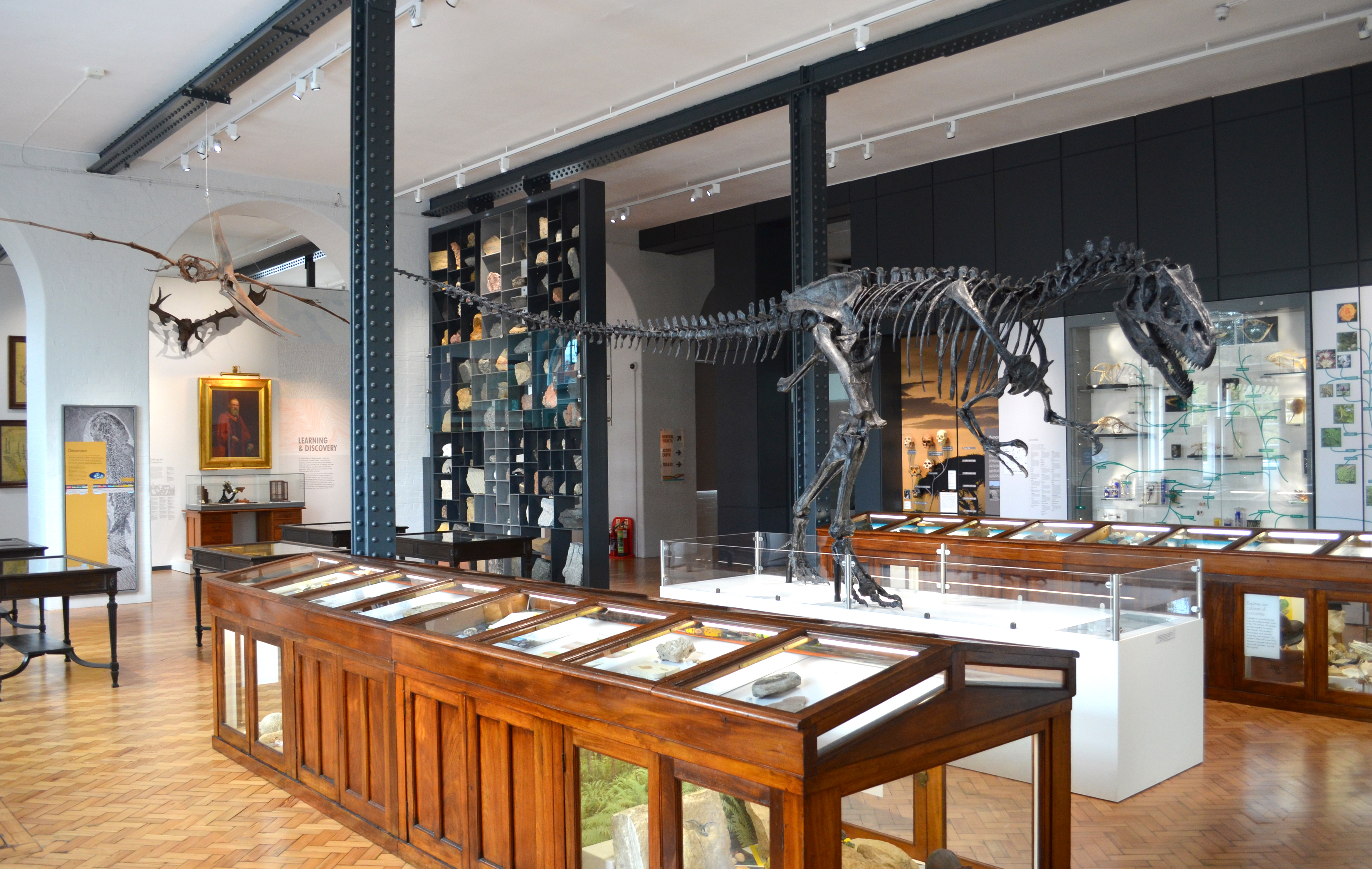 Photograph of the main Evolution of Life gallery of the Lapworth Museum of Geology